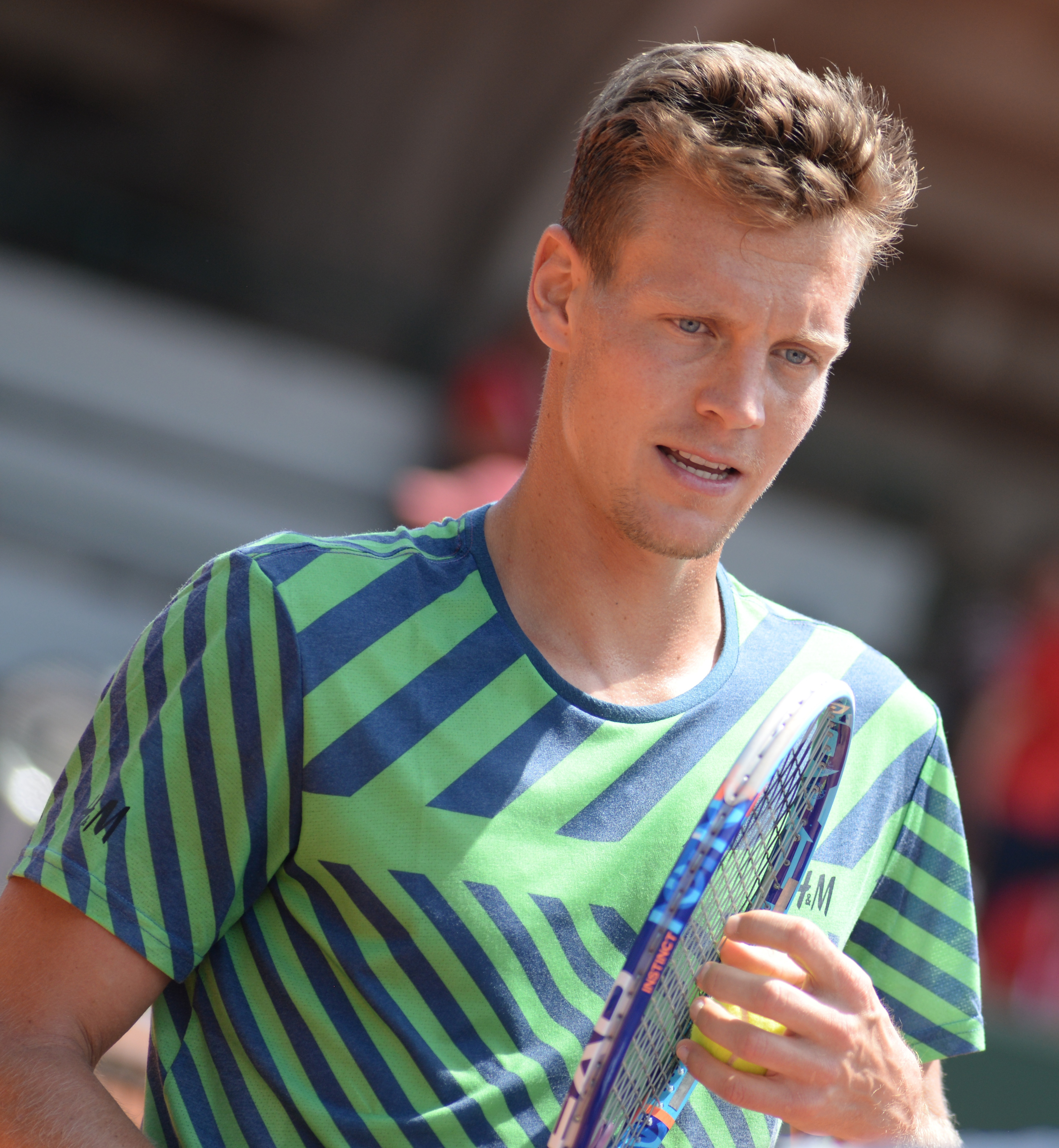 Tomáš Berdych at the 2015 French Open